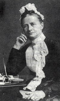 Photograph of Cecil F. H. Alexander Author:Cecil Frances Alexander